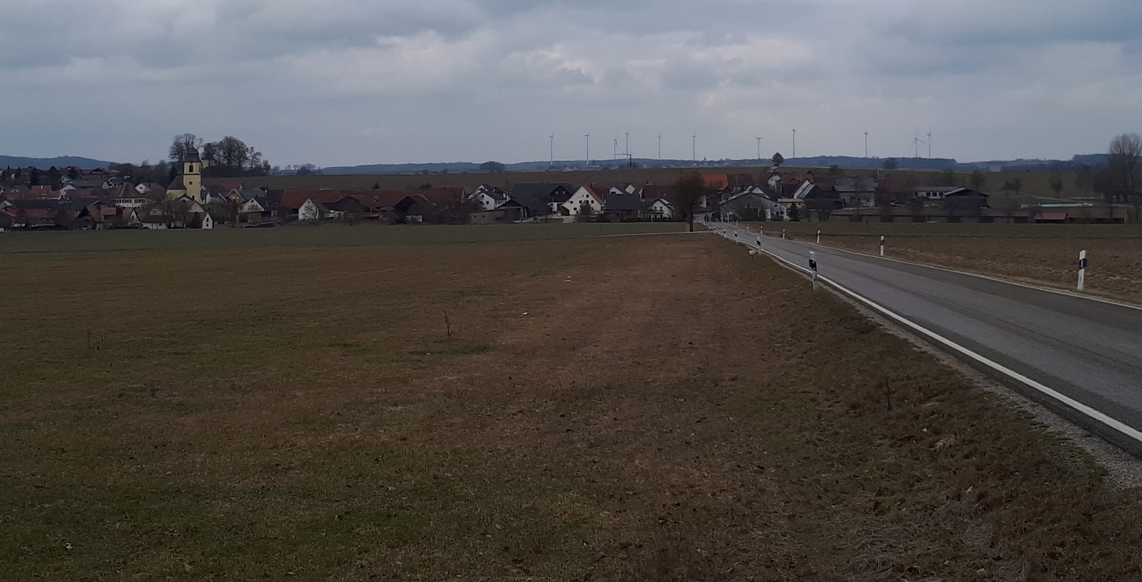 Prospect of the village of Nordhausen, Unterschneidheim community, district of Aalen, Baden-Württemberg, Germany